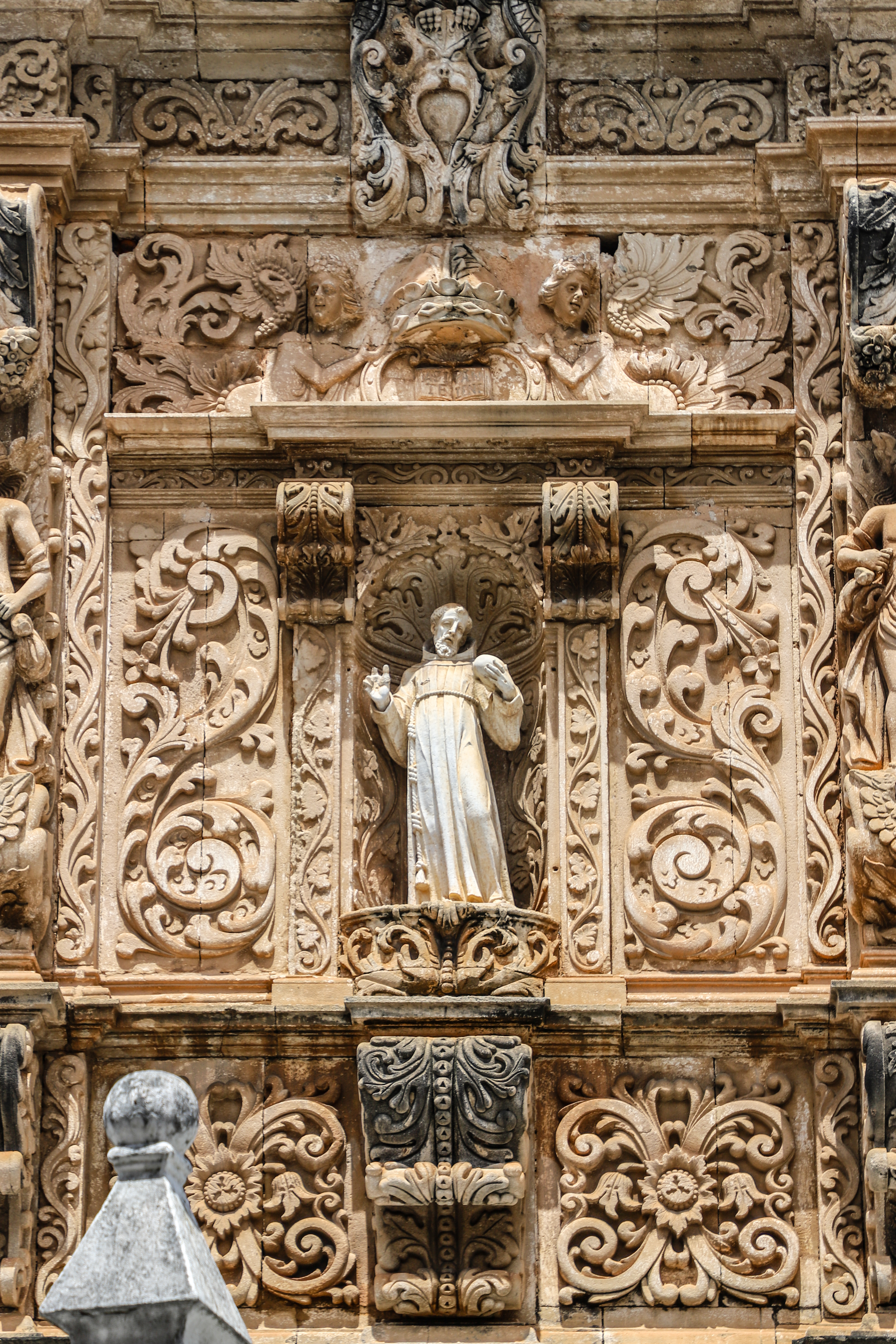 Façade, Igreja da Ordem Terceira de São Francisco (Church of the Third Order of Saint Francis), in the Plasteresque style, built of sandstone, Salvador, Bahia, Brazil.